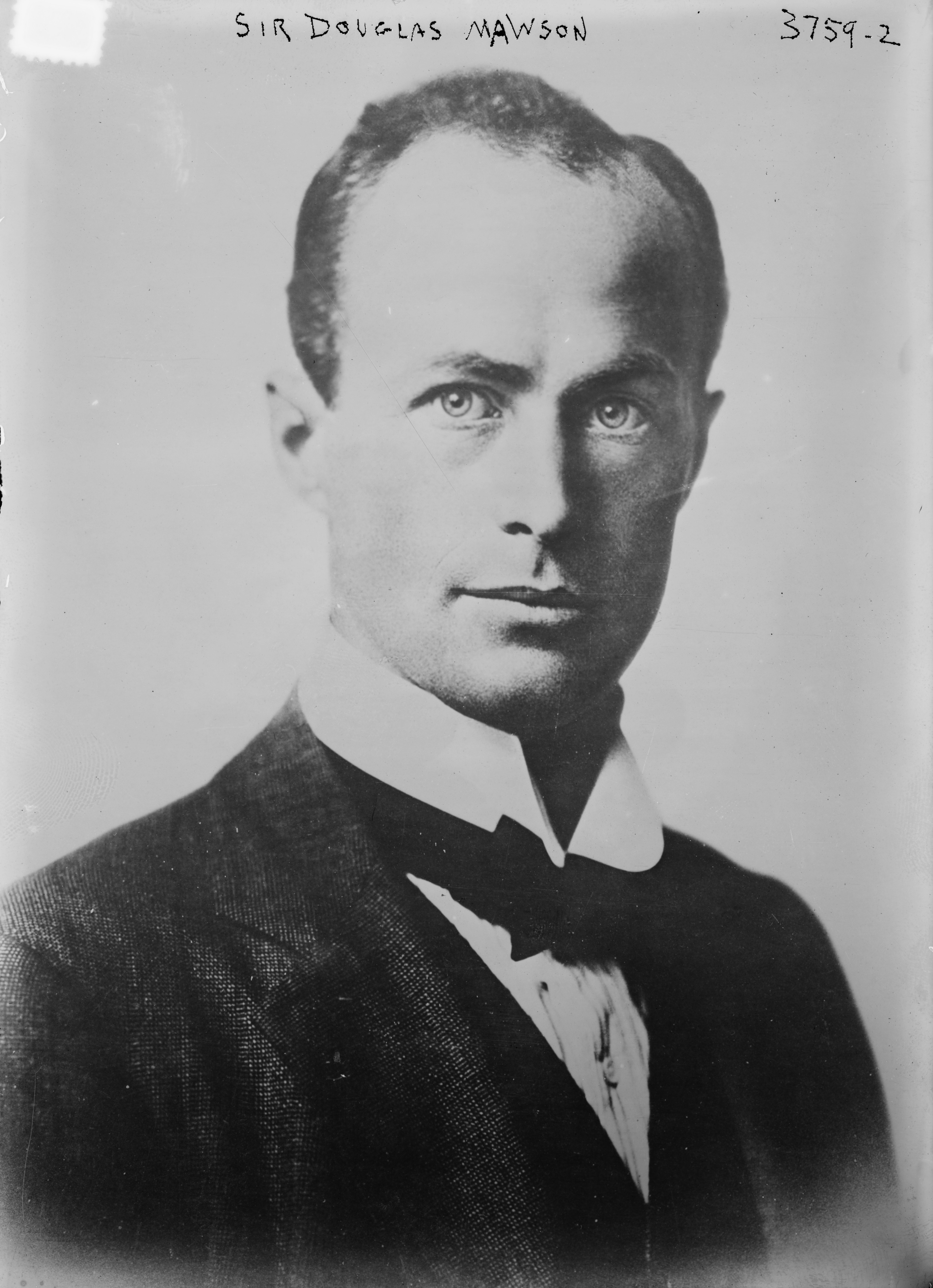 Sir Douglas Mawson circa 1916. Image from the Library of Congress.